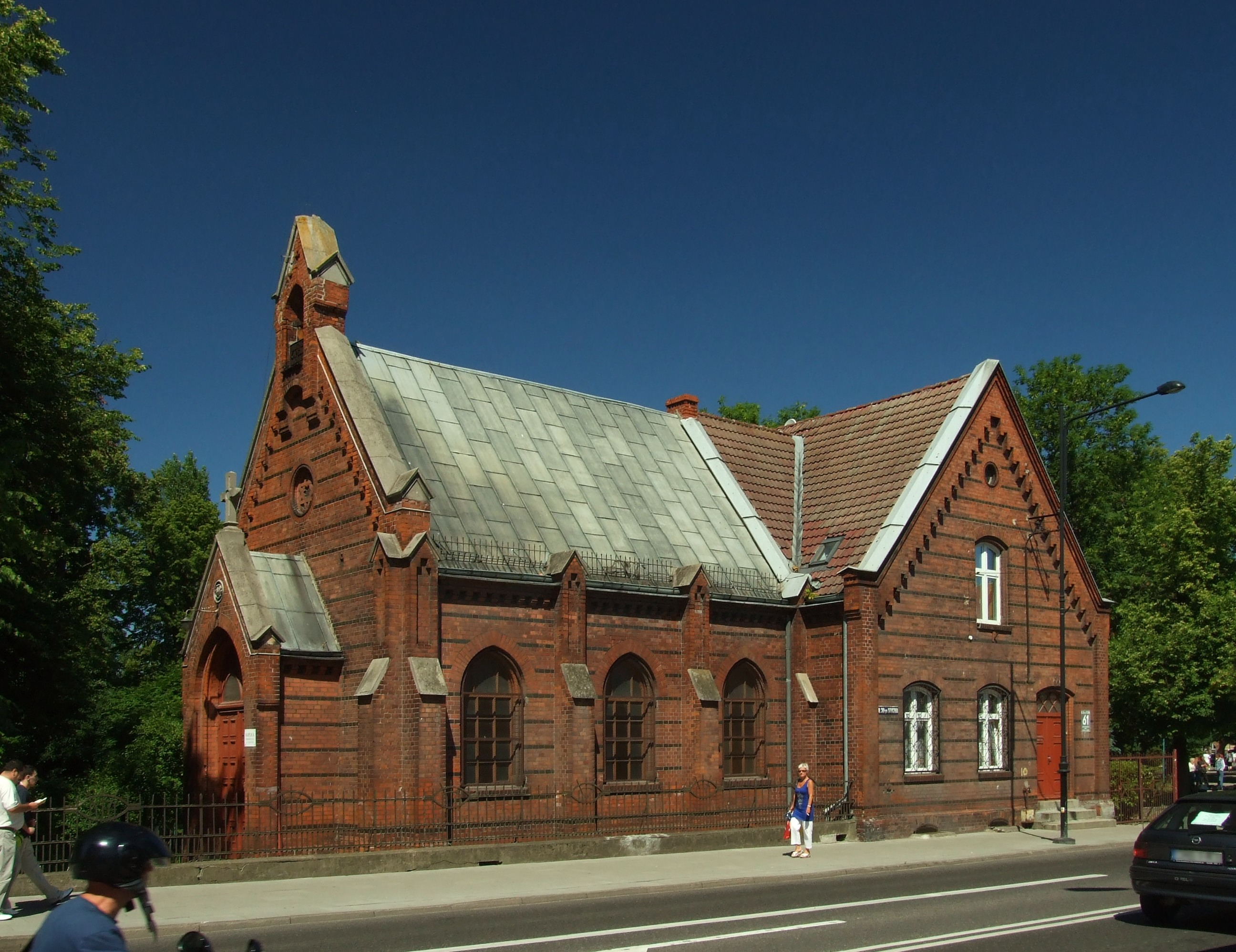 A small church in Tczew (Poland) on 30 Stycznia street